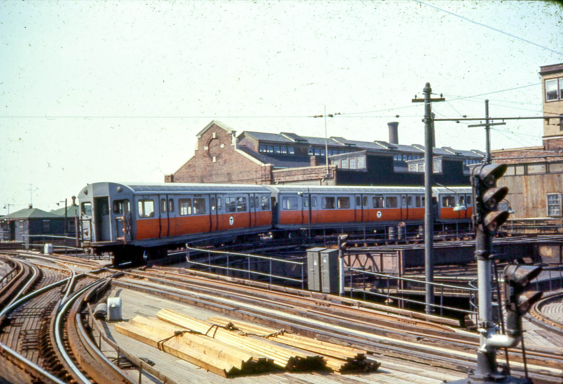 A train exits the Sullivan Square shops in 1967